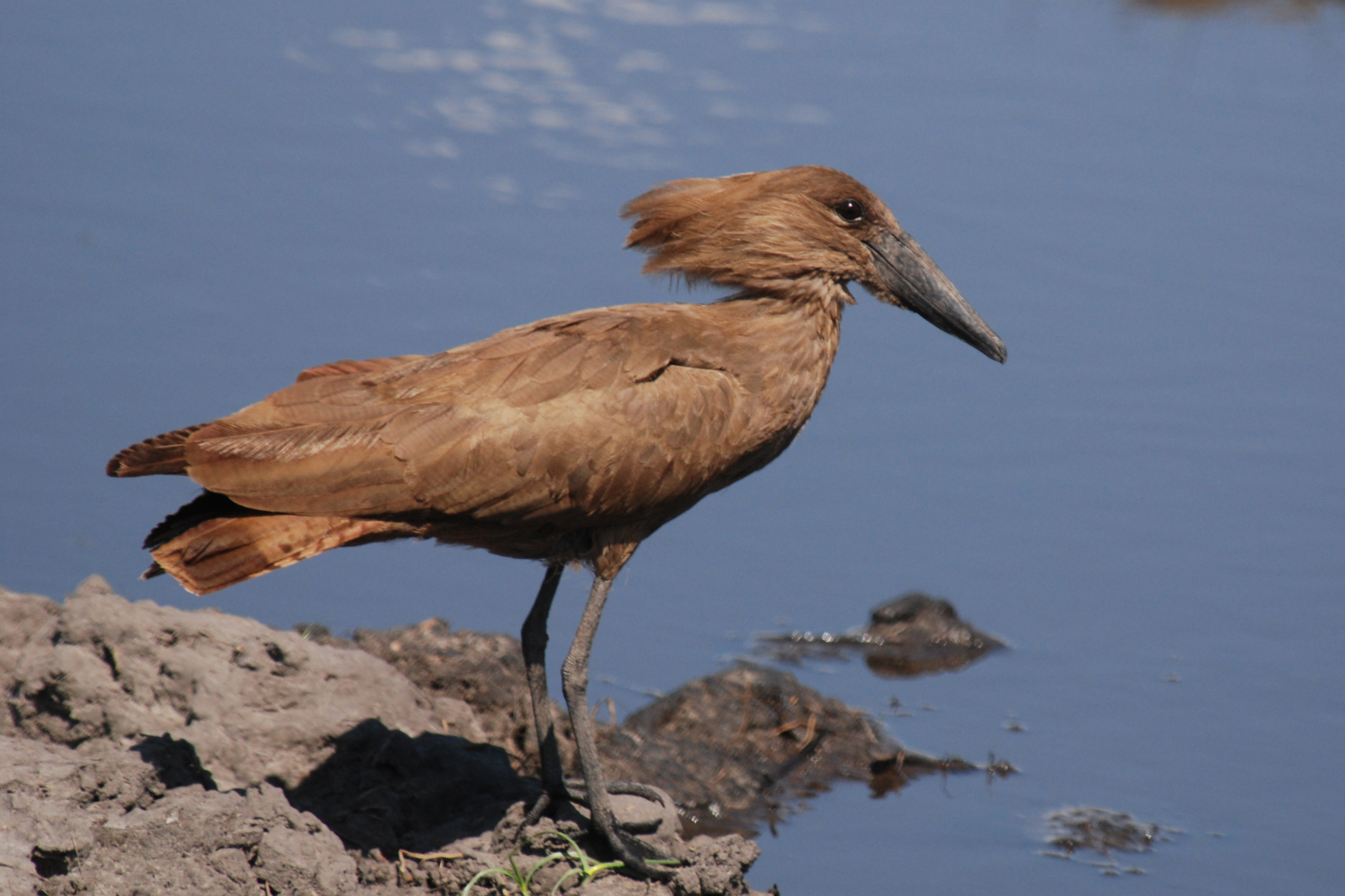 A Hammerkop in Botswana.